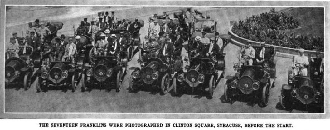 Franklin Automobile Company summer outing - 17 Franklin cars in Clinton Square, Syracuse, New York